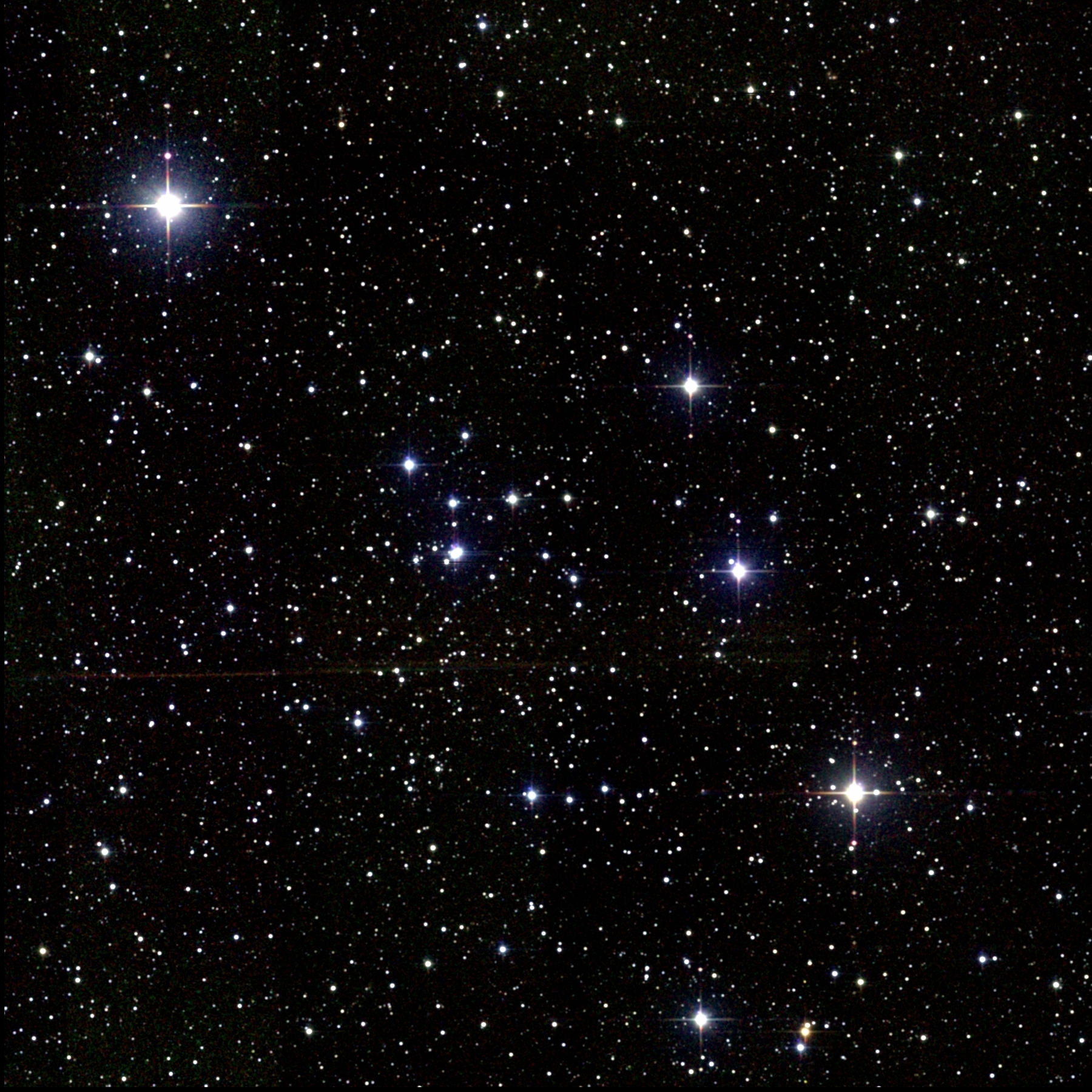 This work has been released into the public domain by its copyright holder, Two Micron All Sky Survey (2MASS). This applies worldwide. In some countries this may not be legally possible; if so: Two Micron All Sky Survey (2MASS) grants anyone the right to use this work for any purpose, without any conditions, unless such conditions are required by law. This image is from the Two Micron All Sky Survey (2MASS) project. At it says: "The images and image mosaics in the various Galleries are released into the public domain." 2MASS kindly requests acknowledgement in one of the following forms, the longer of which is preferred. Atlas Image [or Atlas Image mosaic] obtained as part of the Two Micron All Sky Survey (2MASS), a joint project of the University of Massachusetts and the Infrared Processing and Analysis Center/California Institute of Technology, funded by the National Aeronautics and Space Administration and the National Science Foundation. Atlas Image [or Atlas Image mosaic] courtesy of 2MASS/UMass/IPAC-Caltech/NASA/NSF. English | español | +/−